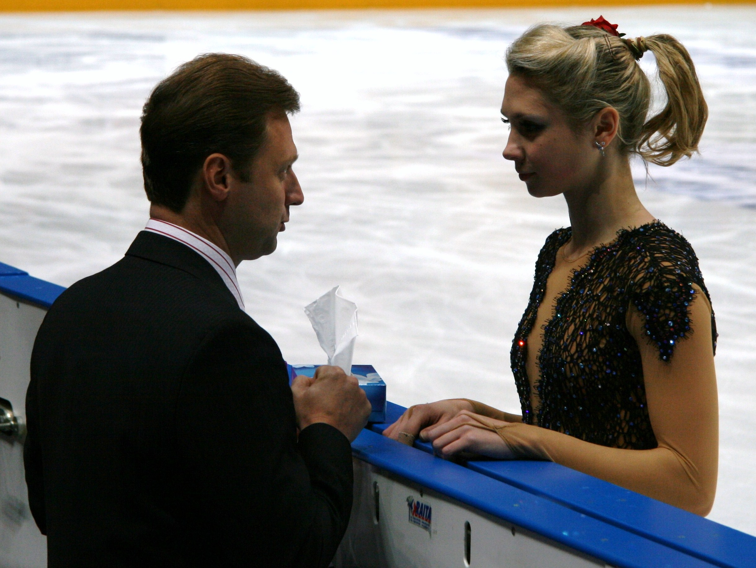 Viktor Petrenko and Ksenia Makarova at the 2010 Cup of Russia